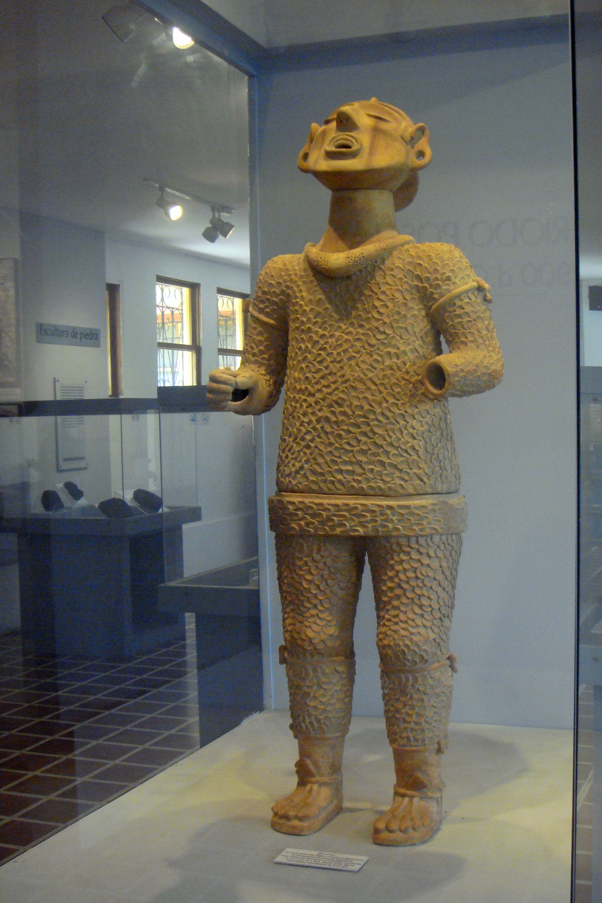 Tazumal's Xipe Totec exhibited at the Stanley Boggs Museum, located in Tazumal Archaeological Site, Chalchuapa, El Salvador.